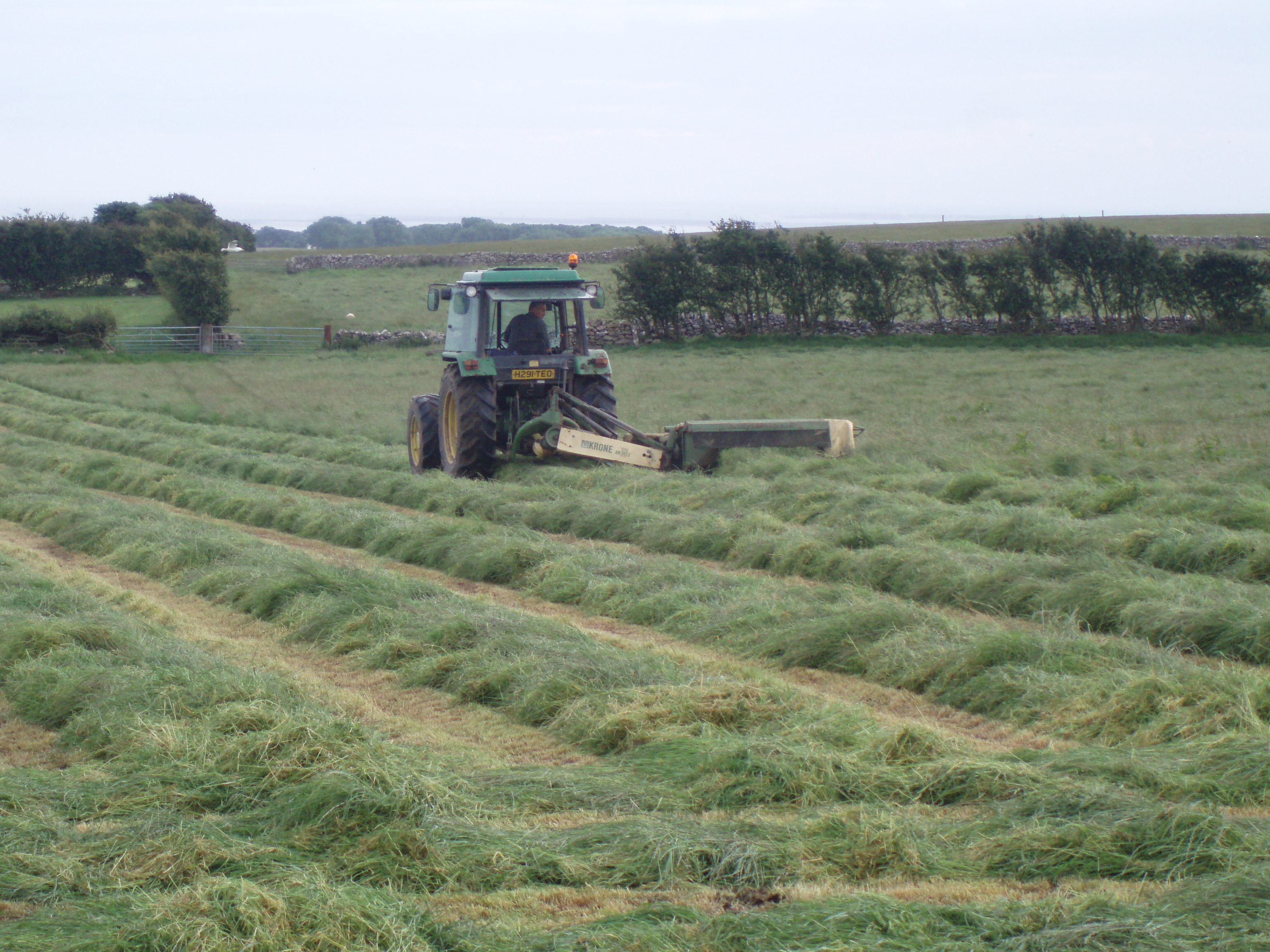 "…difficult after all the rain we are having." – Tractor pulling a Krone mower somewhere in the UK.